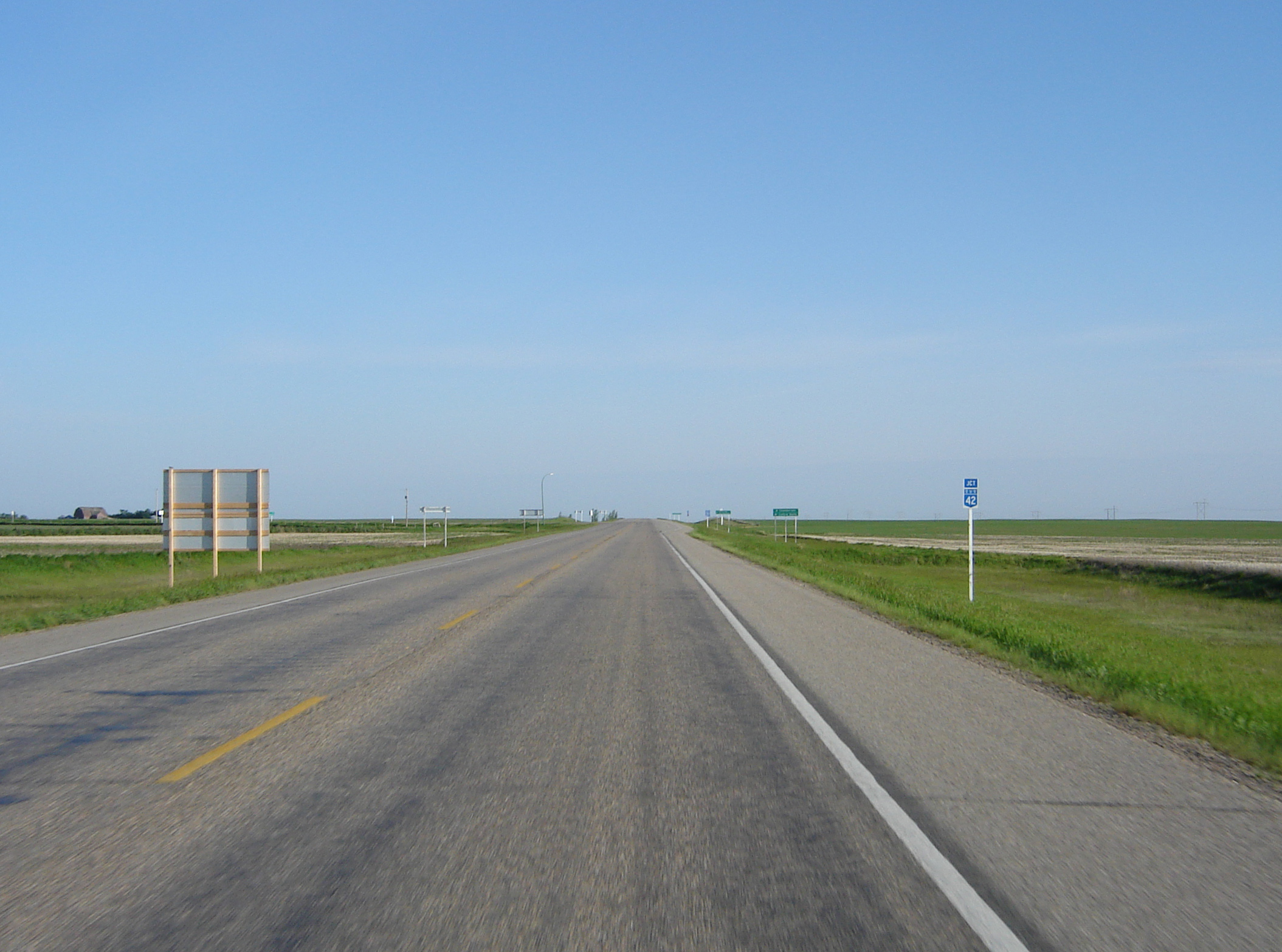 Junction 42 Chamberlain ahead Saskatchewan Highway 2 (north); Central Butte turn left, (West) Saskatchewan Highway 42 Road Signage Photo taken from Saskatchewan Highway 2 travelling north from Moose Jaw to Saskatchewan Highway 11